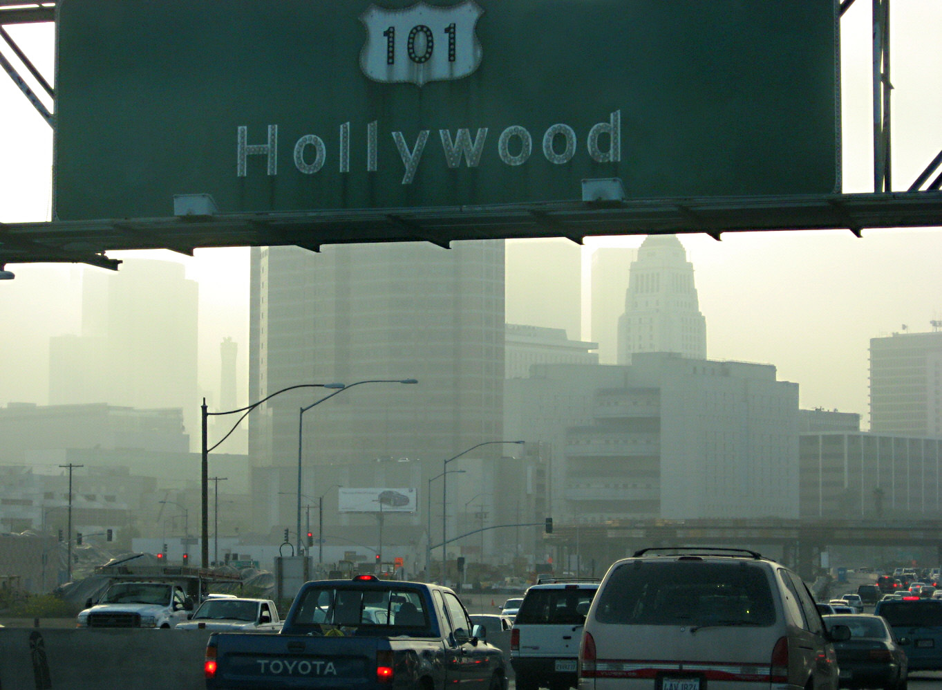 A smoggy day on the road to Hollywood: US Route 101 entering downtown Los Angeles just north of its southern point of origin